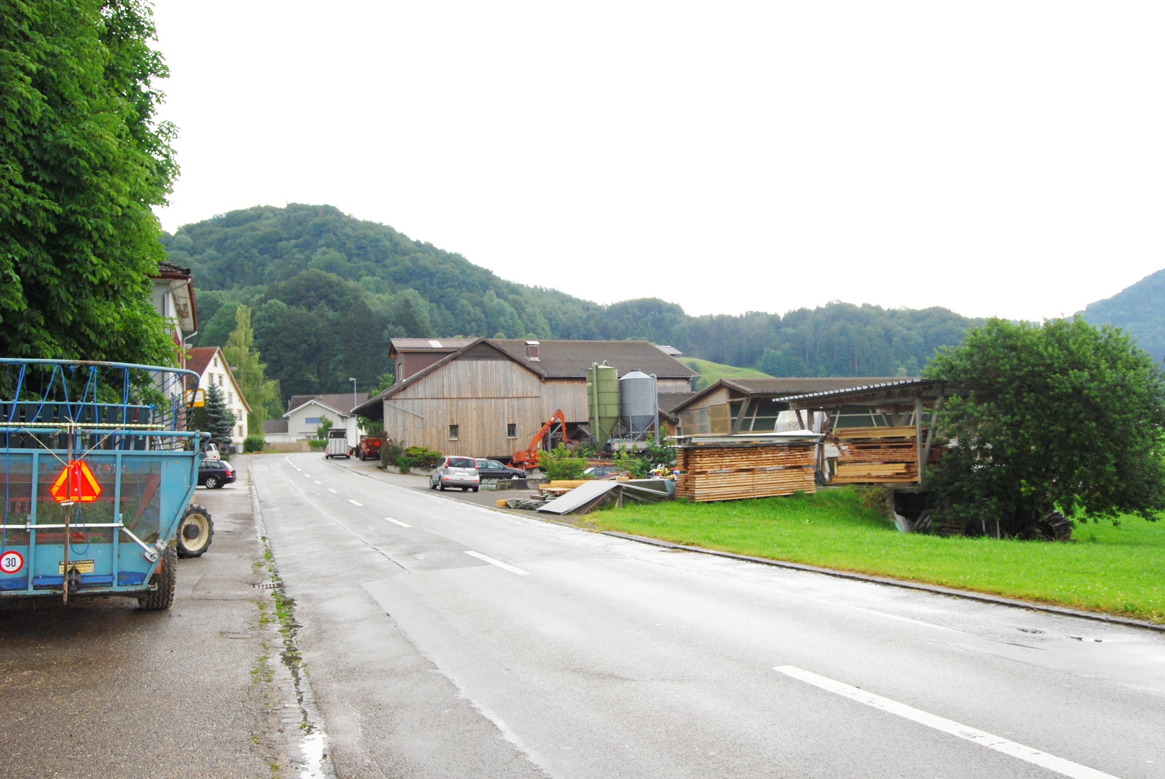 Oberrindal, municipality of Lütisburg, canton of St. Gallen, SwitzerlandEsperanto: Oberrindal, komunumo Lütisburg, Kantono Sankt-Galo, Svislando